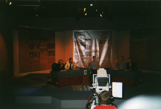 Picture taken before recording of the NRK-programme "Nytt på Nytt". Photographer: Anders Å. Larsen